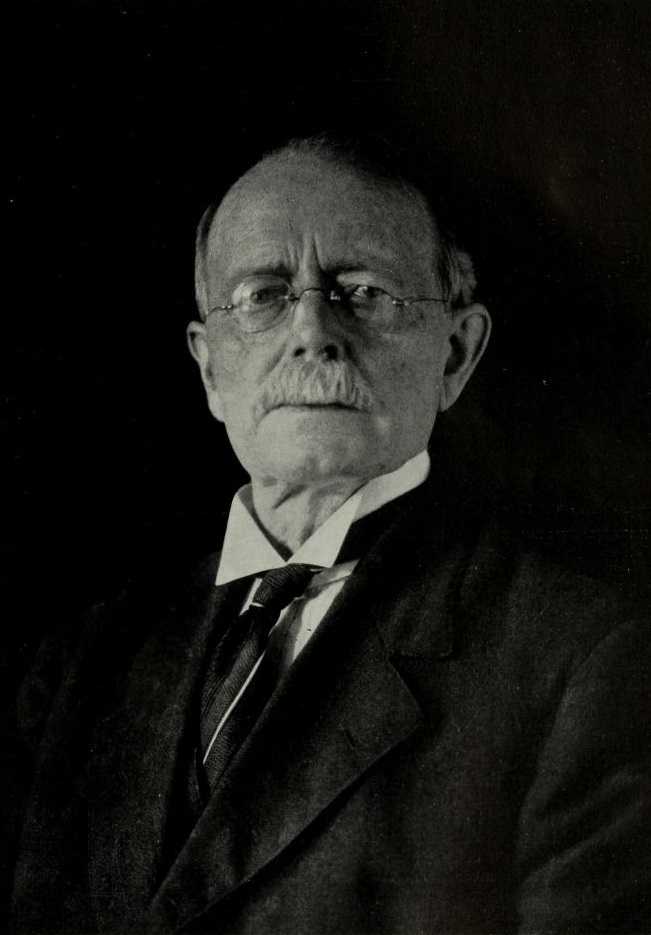 Portrait of John P. Holland